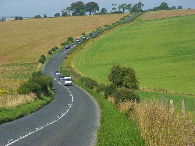 The A360, Rollestone The Salisbury to Devizes road crosses undulating countryside on its way between the Stonehenge area and Shrewton.